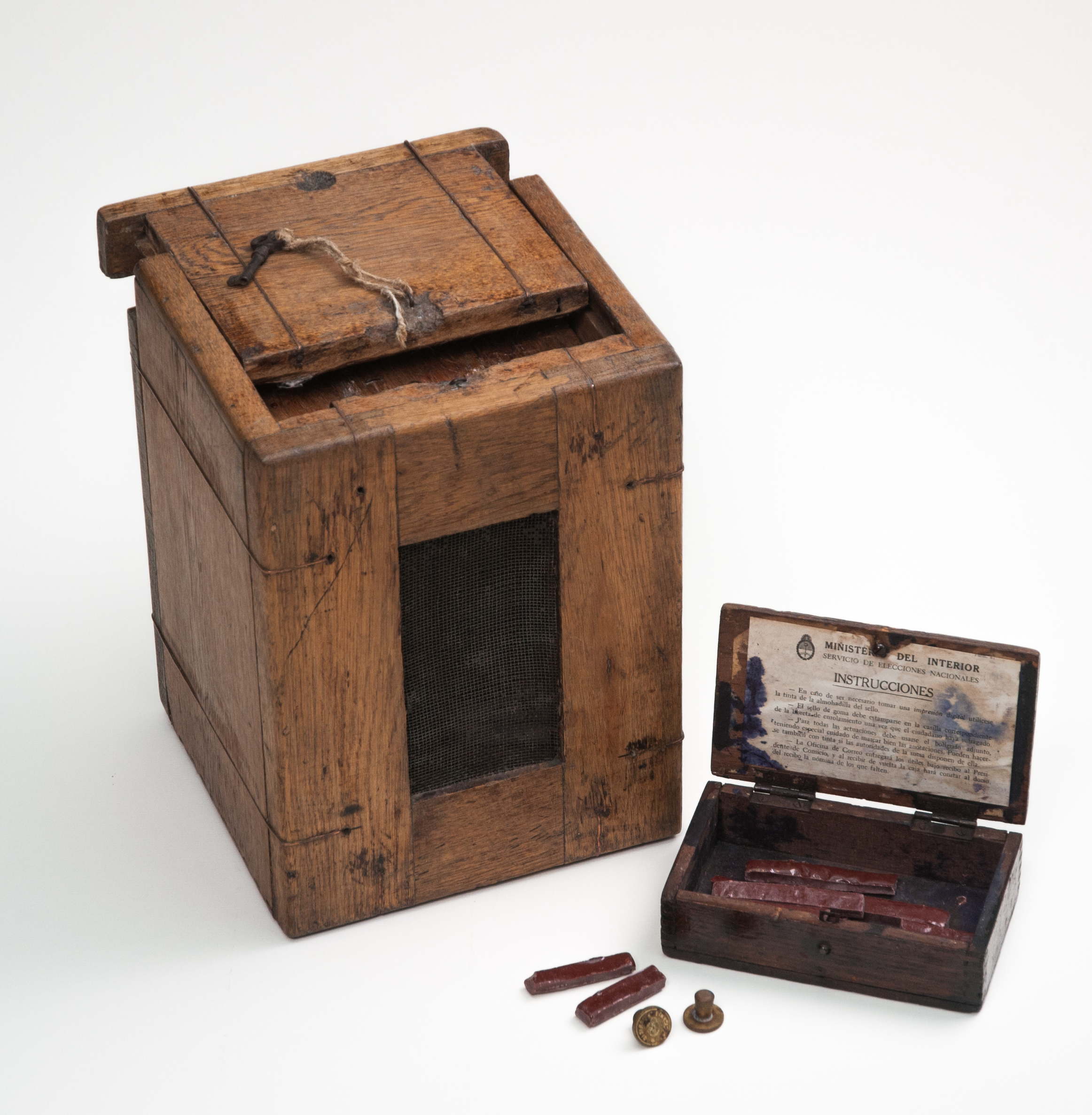 Ballot box used in 1916 argentine general elections, first elections using Saenz Peña law of secret, universal and mandatory vote where Hipolito Yrigoyen was elected.